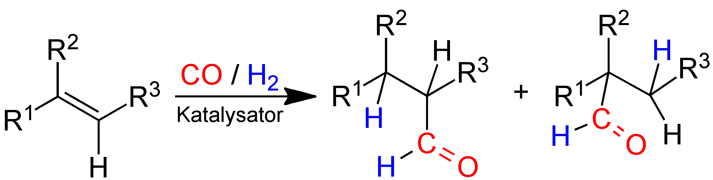 Hydroformylation